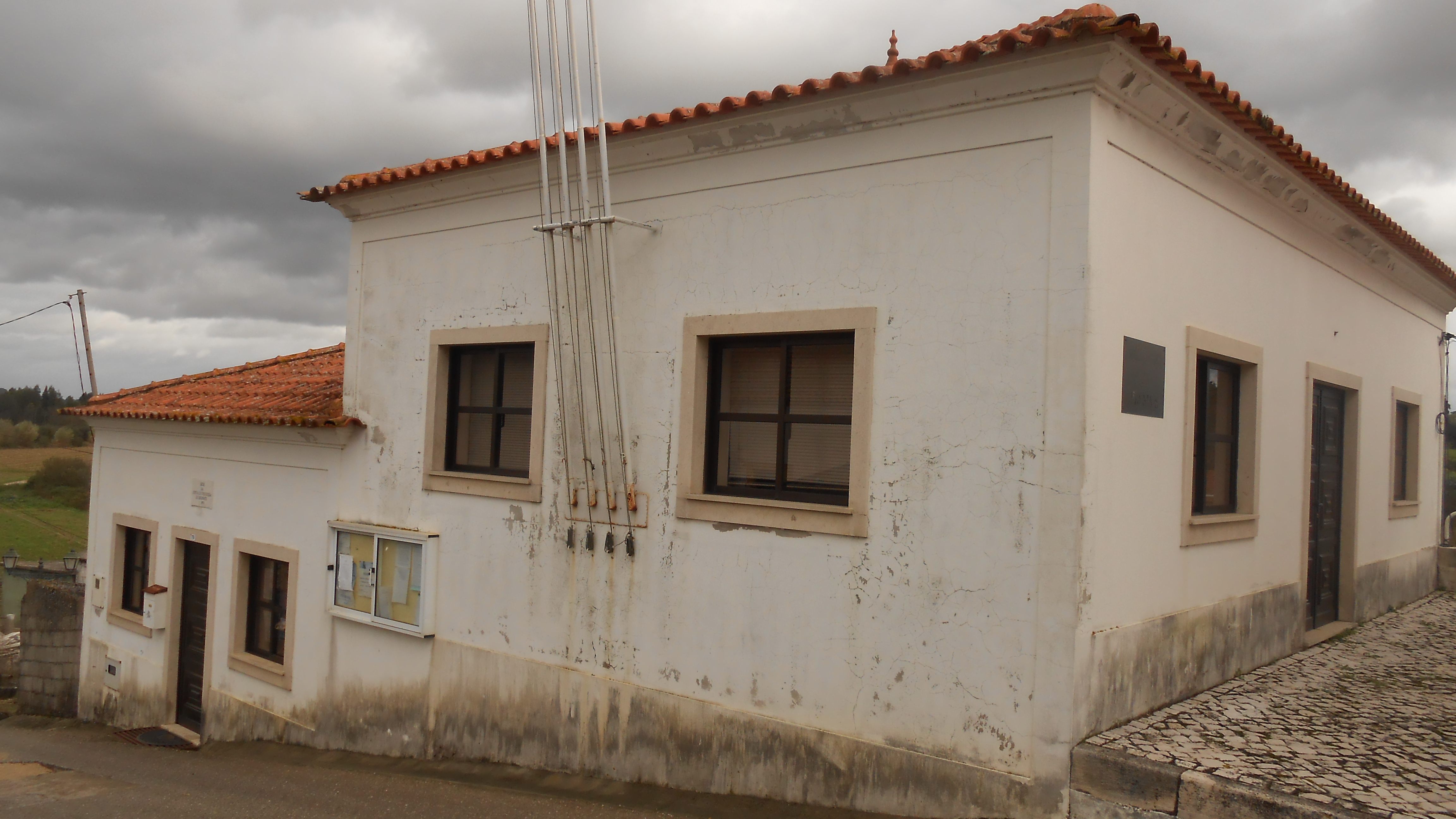 Administration building of the Brunhós parish, municipality of Soure, Coimbra district, Portugal.